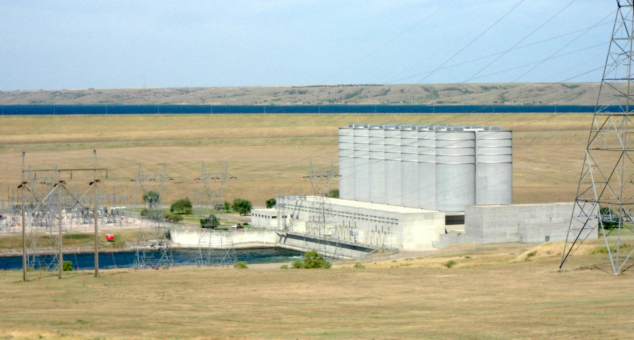 Oahe Powerhouse near Pierre, South Dakota showing surge chambers and part of tailrace, looking to north-west.